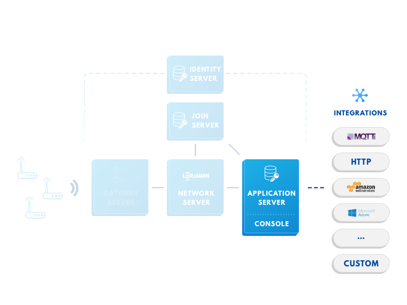 The Things Network integrations